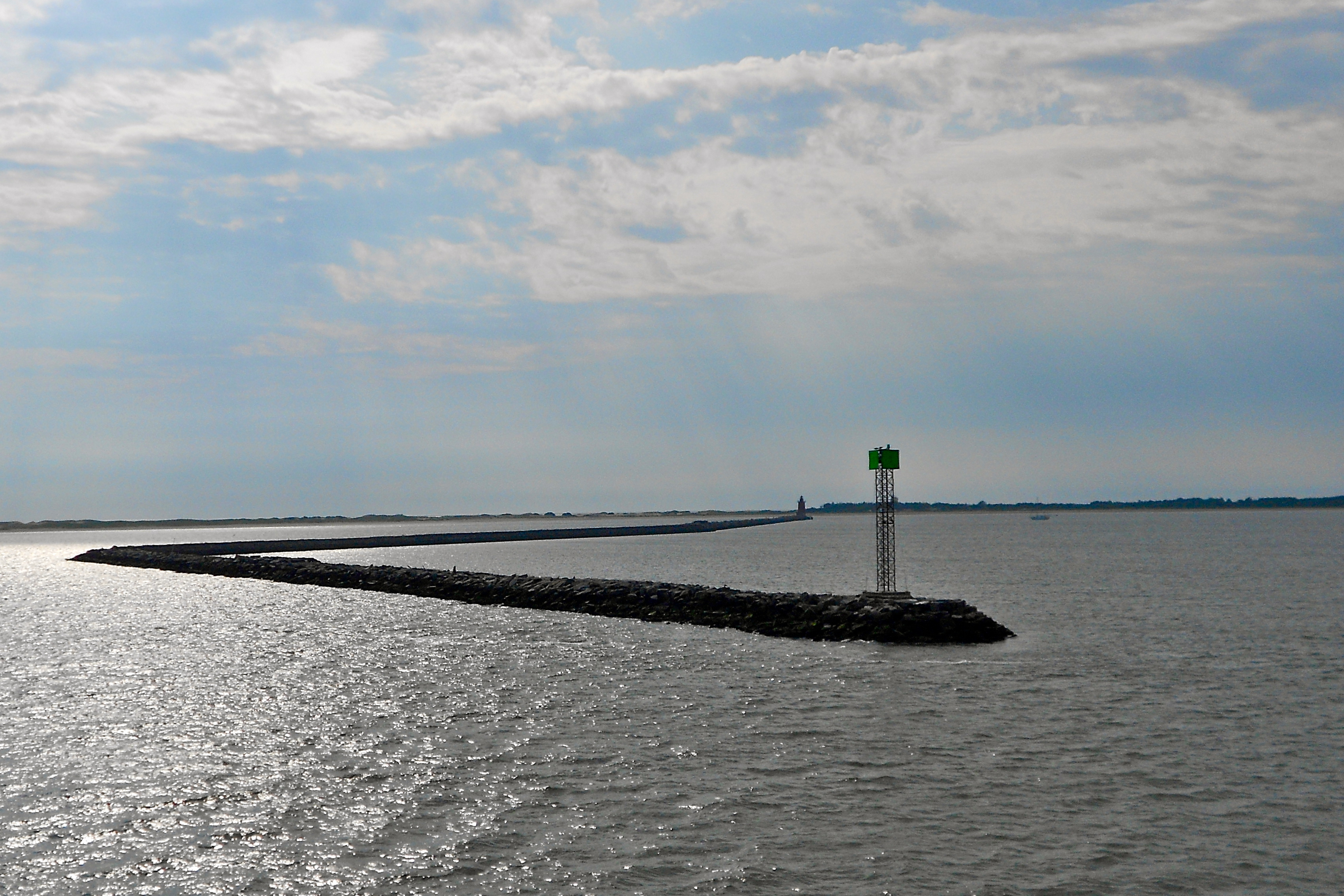 Inner harbor in Lewes, Delaware on the NRHP